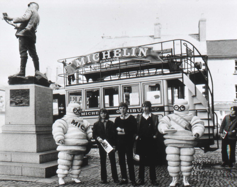 Agincourt Square c. 1965-1970, view of old fashioned Michelin omnibus and two Michelin men with bystanders behind Rolls statue. Monmouth Museum Identity Number: M4488